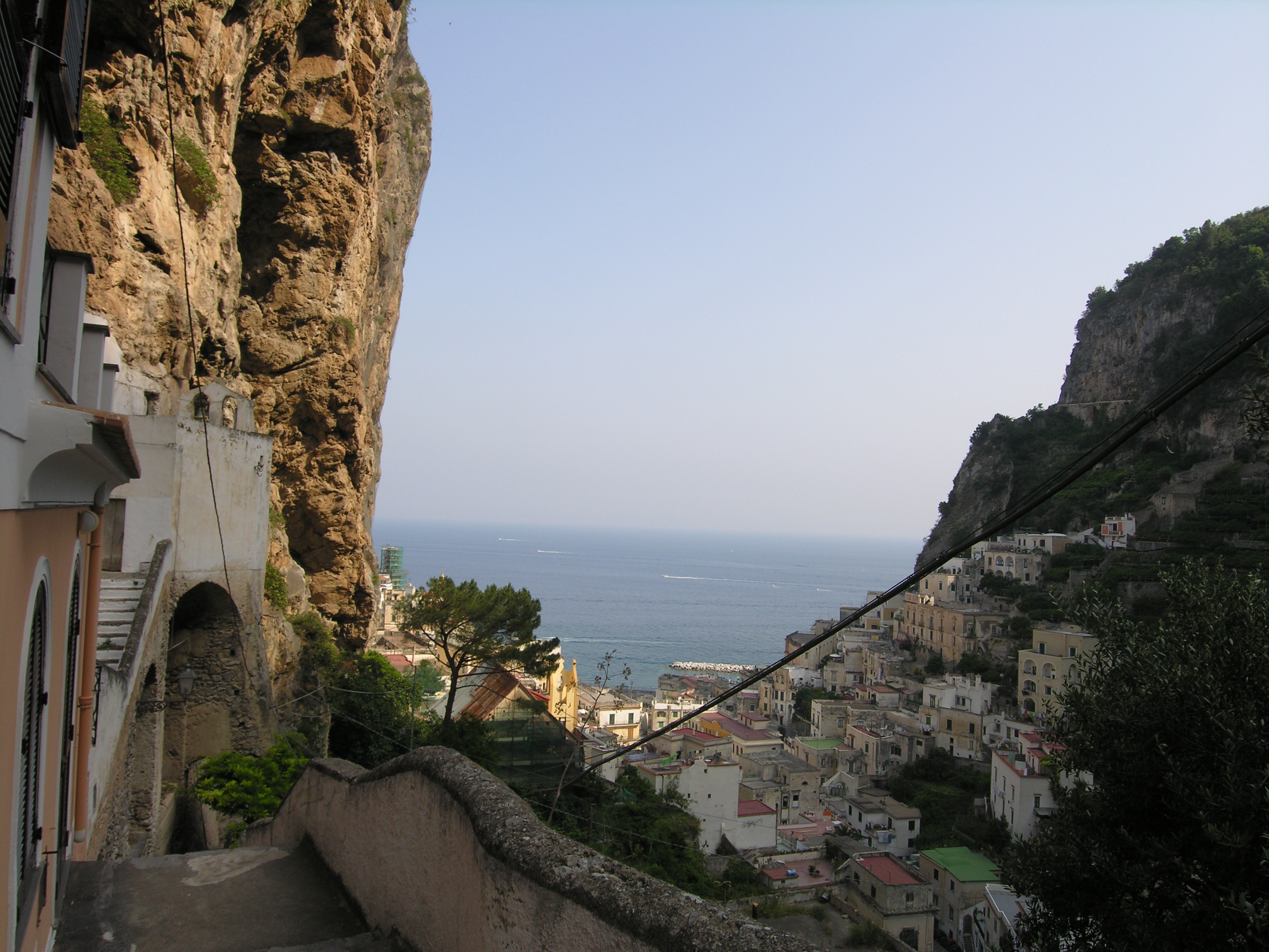 On the way from Ravello to Amalfi, Italy